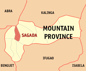 Map of Mountain Province showing the location of Sagada